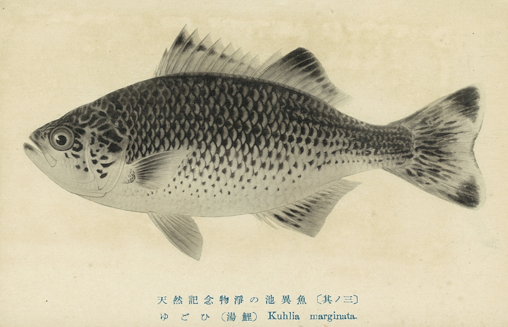 Jono-ike pond postcard. Spotted flagtail.1936